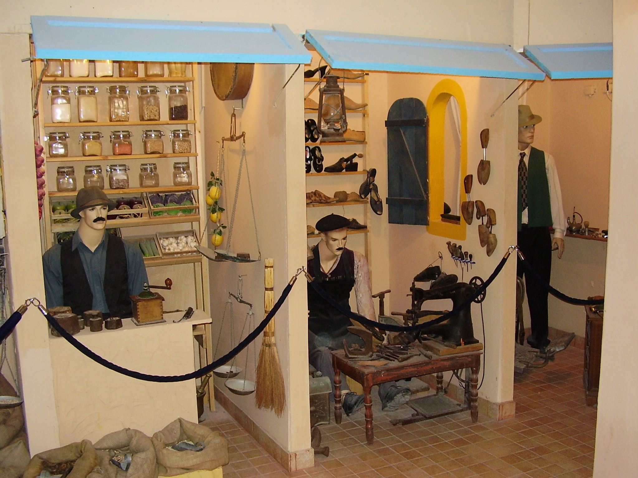 Lybian Jewish Heritage Museum in Or Yehuda